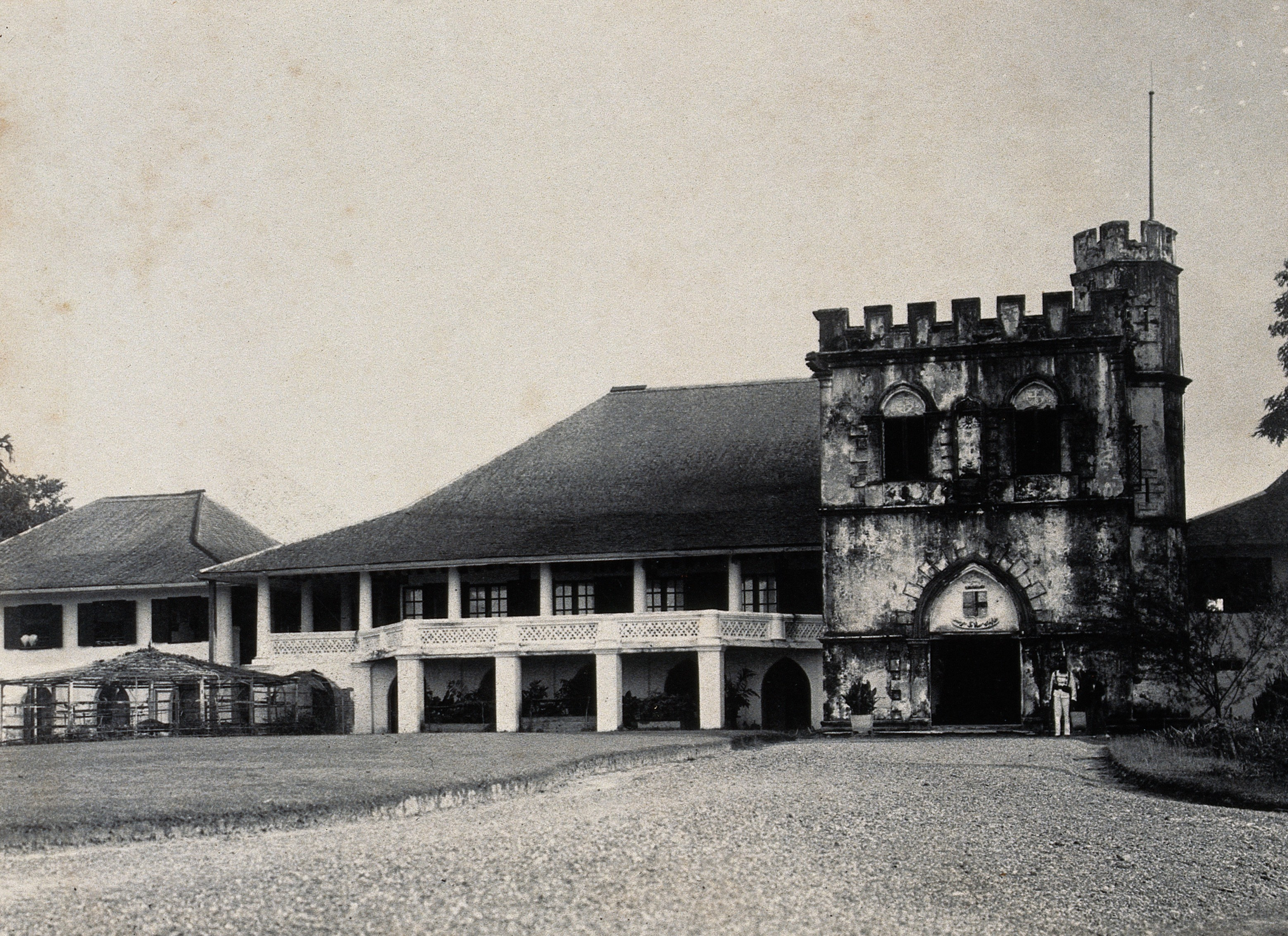 Kuching, Sarawak: the Astana, a partly castellated building. Photograph. Iconographic Collections Keywords: Anthropology; Malaysia; Charles Hose; Ethnography; Borneo